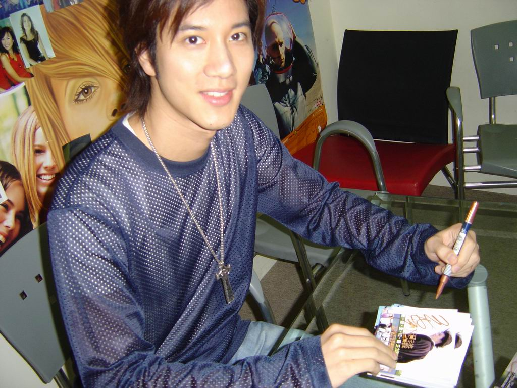 Lee-Hom Wang in Thailand 2004